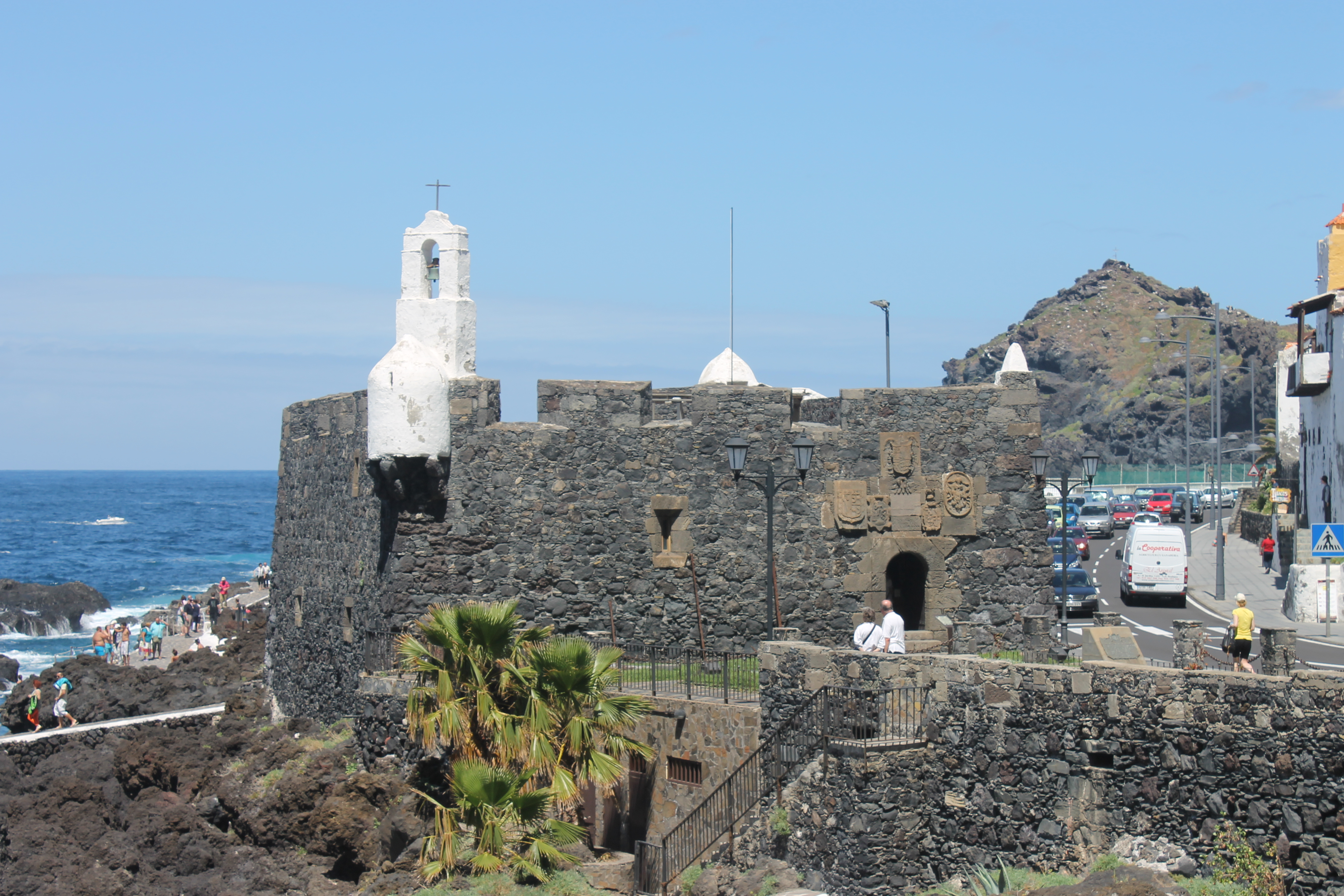 San Miguel Castle, Garachico (Tenerife)